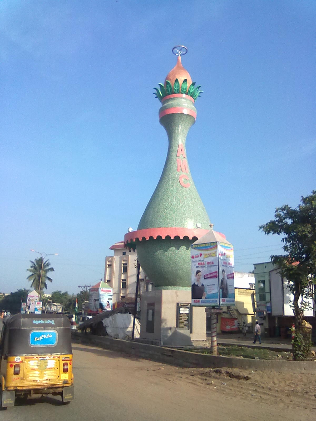 The symbol of Konasema coconut